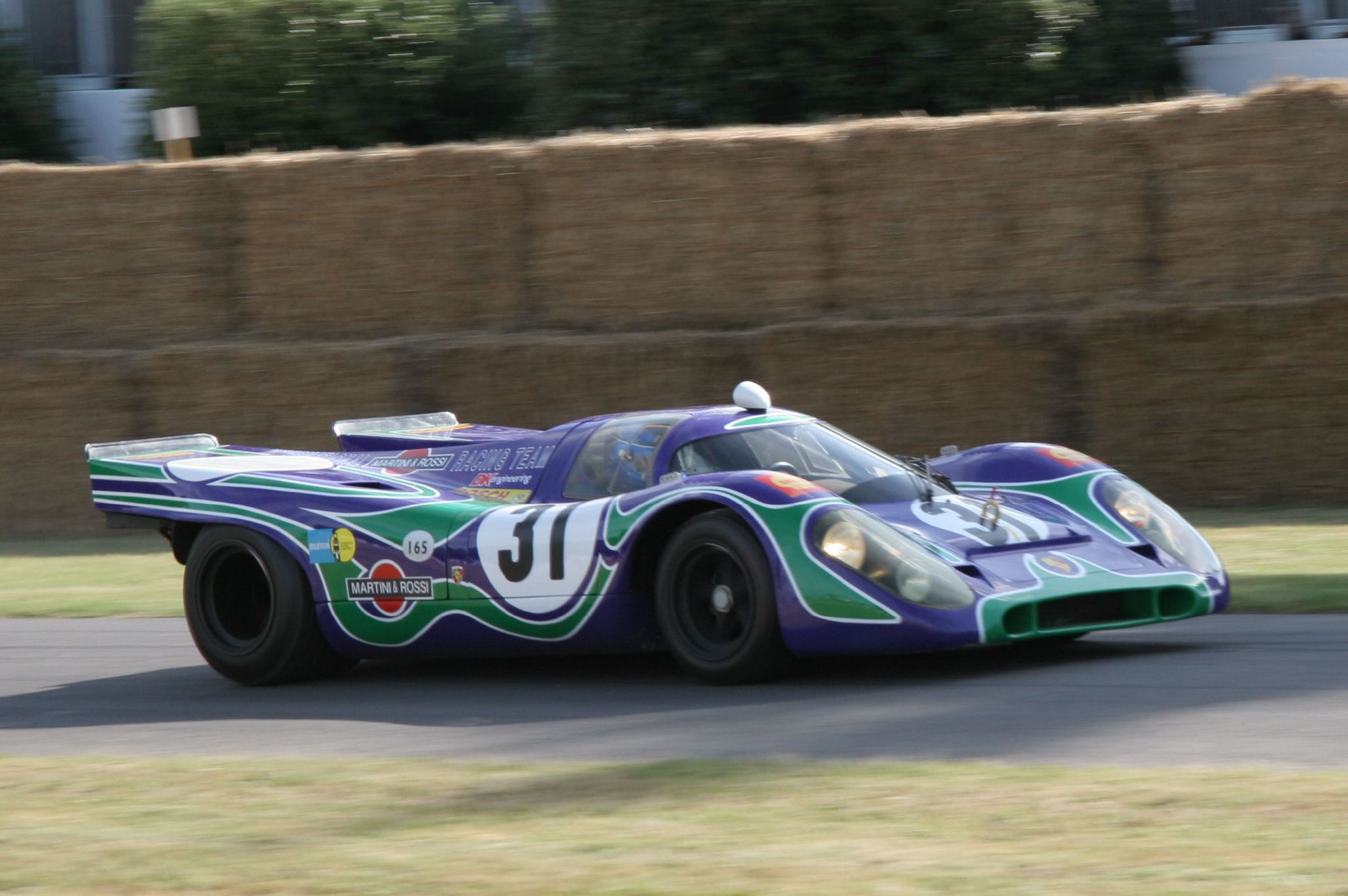 Porsche 917L that finished 2nd at the 1970 24 Hours of Le Mans, run by Martini Racing. Also referred to as the 'hippie car'. (Please see note on talk page)